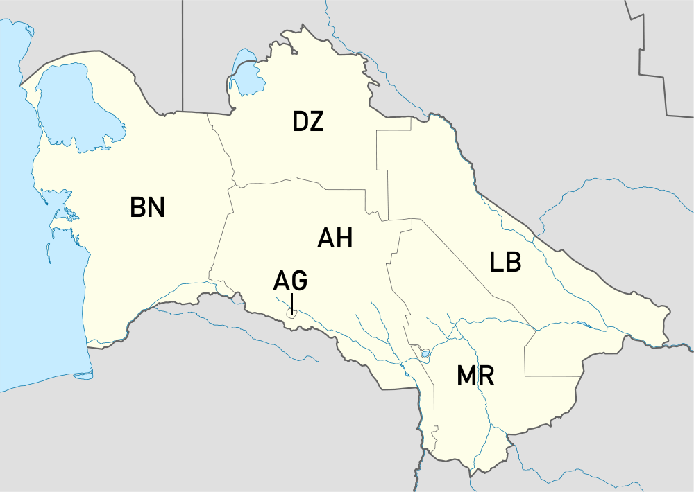 Map of the region codes of the Turkmenian license plates, equirectangular projection, N/S stretching 130 %. Geographic limits of the map: * N: 43.2° N * S: 34.9° N * W: 52.0° E * E: 67.2° E